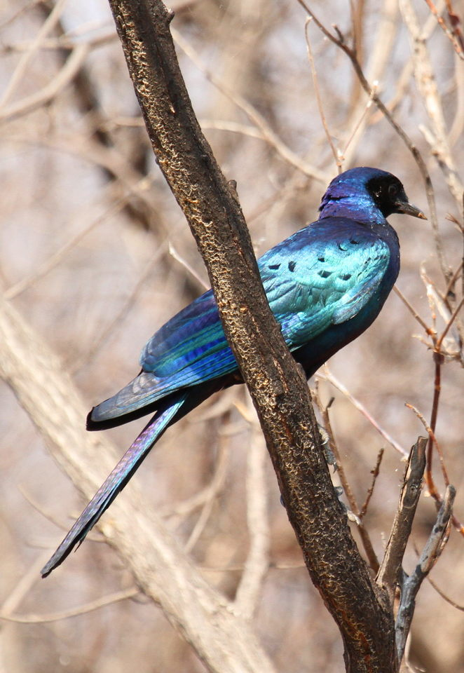 Burchell's Starling Lamprotornis australis, Borakalalo National Park, South Africa